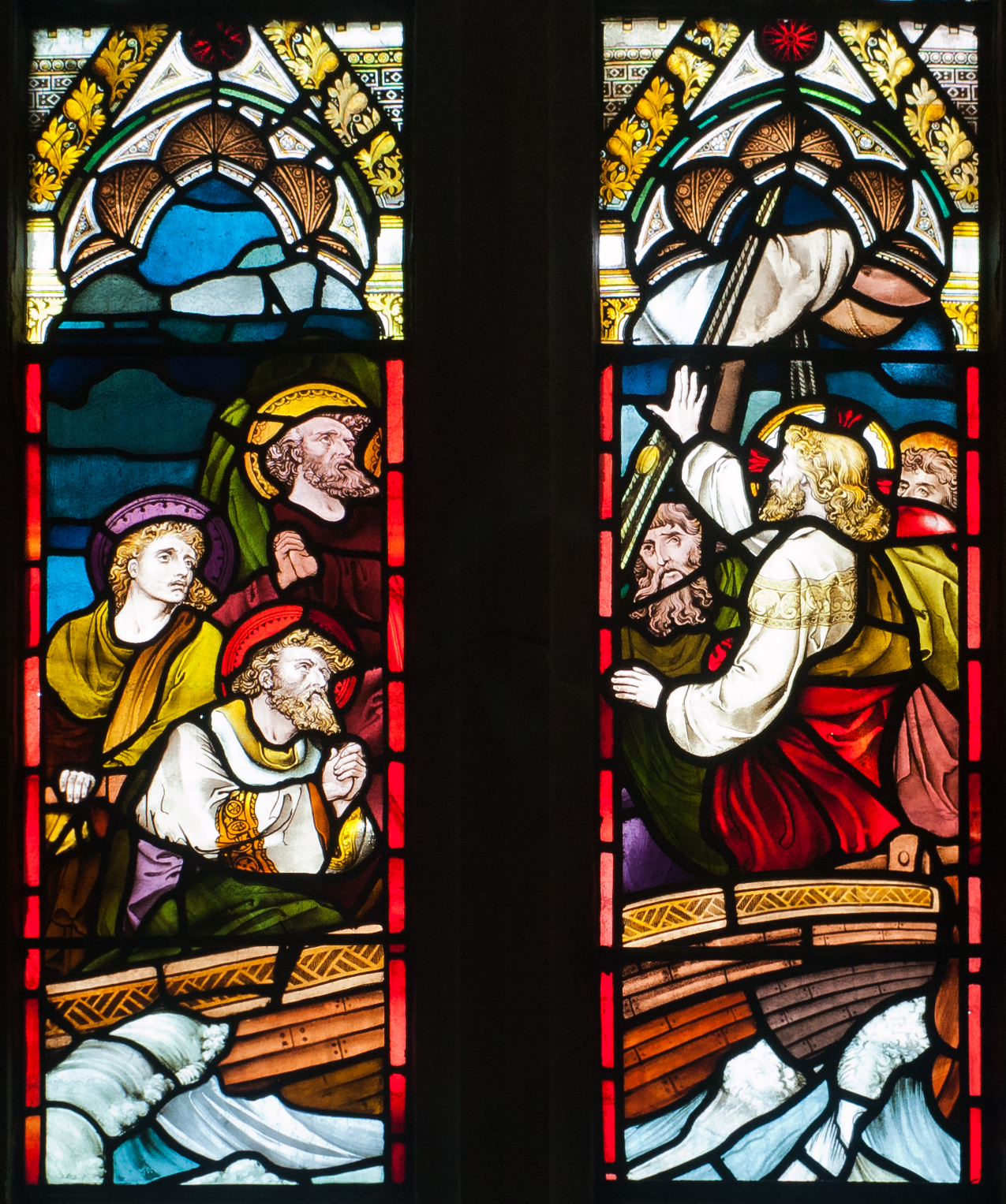 Detail of a stained glass window in the north aisle which is dedicated to the Four Evangelists, depicting the miracle Calming the Storm and quoting Mark 4:39: And he arose & rebuked the wind and said unto the sea “Peace be still”. And the wind ceased & there was a great calm (the quote is not to be seen in this picture).